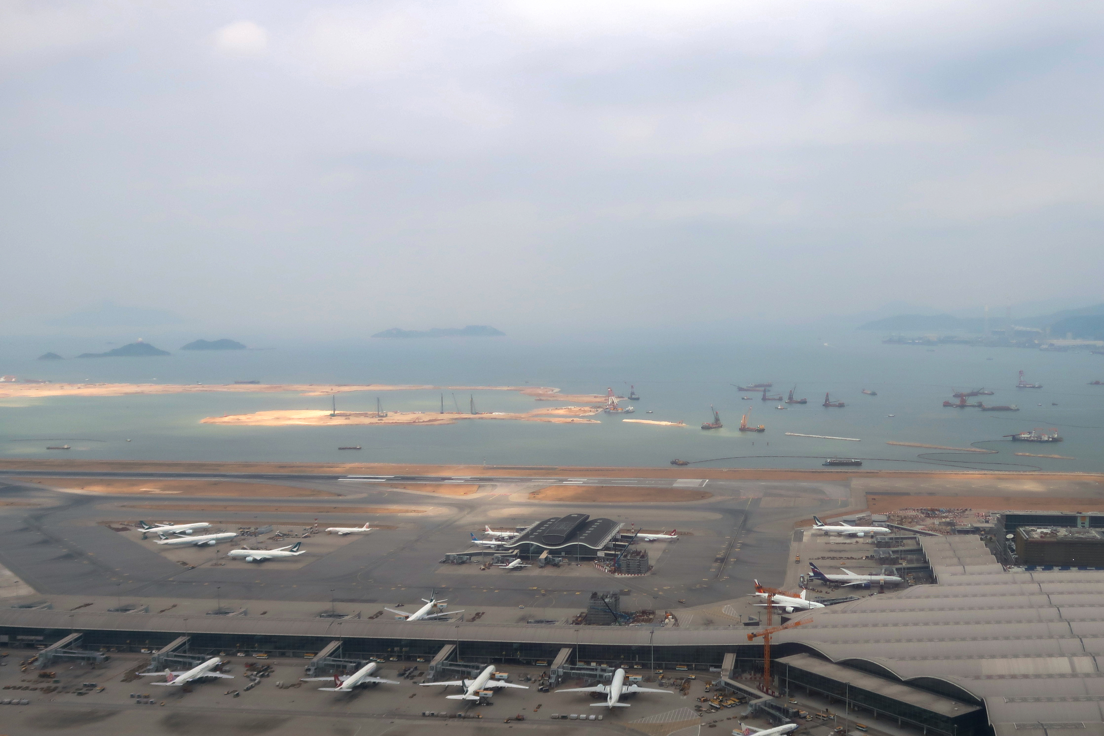 HKIA The Three Runways System Expansion reclamation